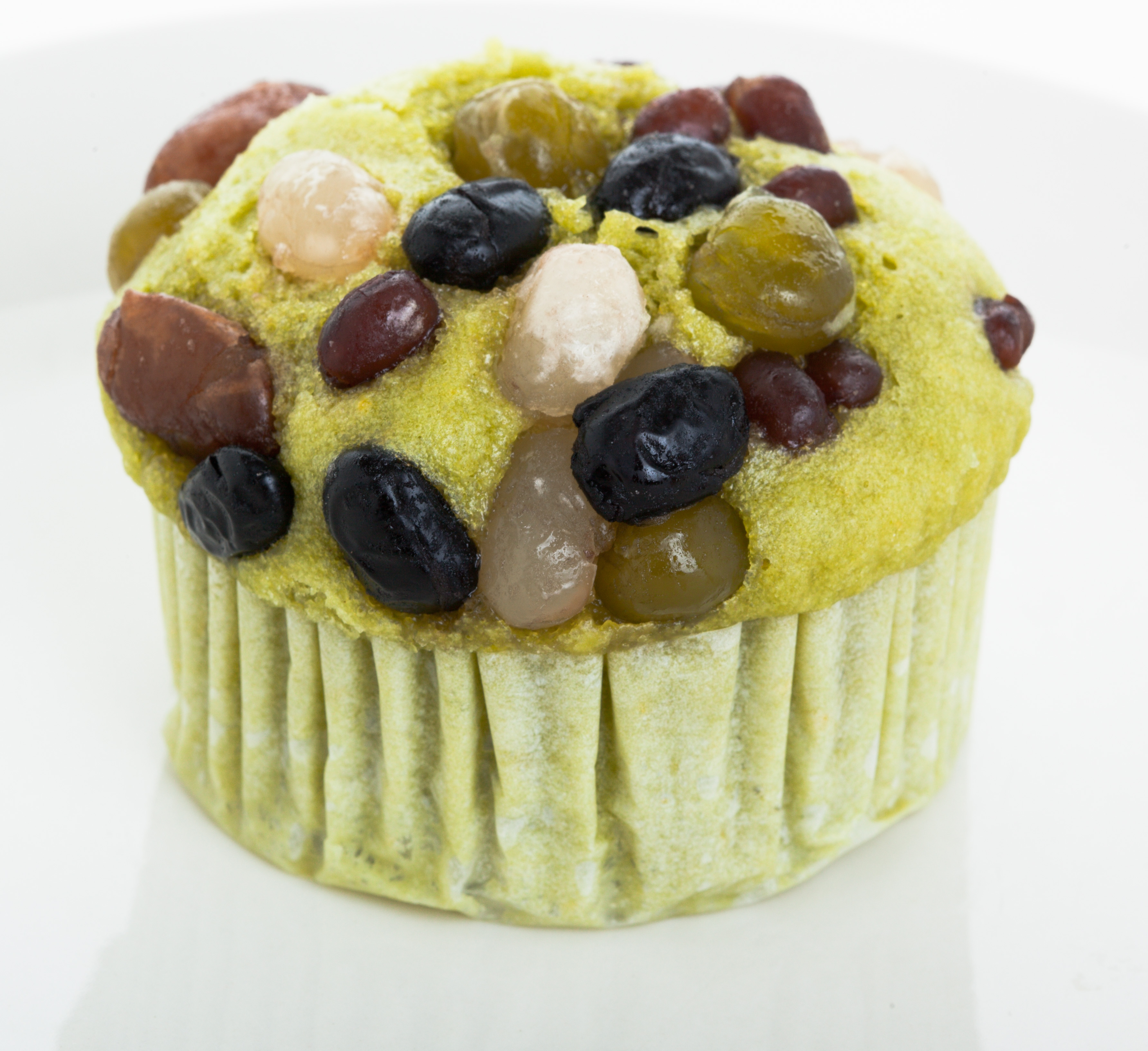 Matcha muffin with sweetened azuki beans